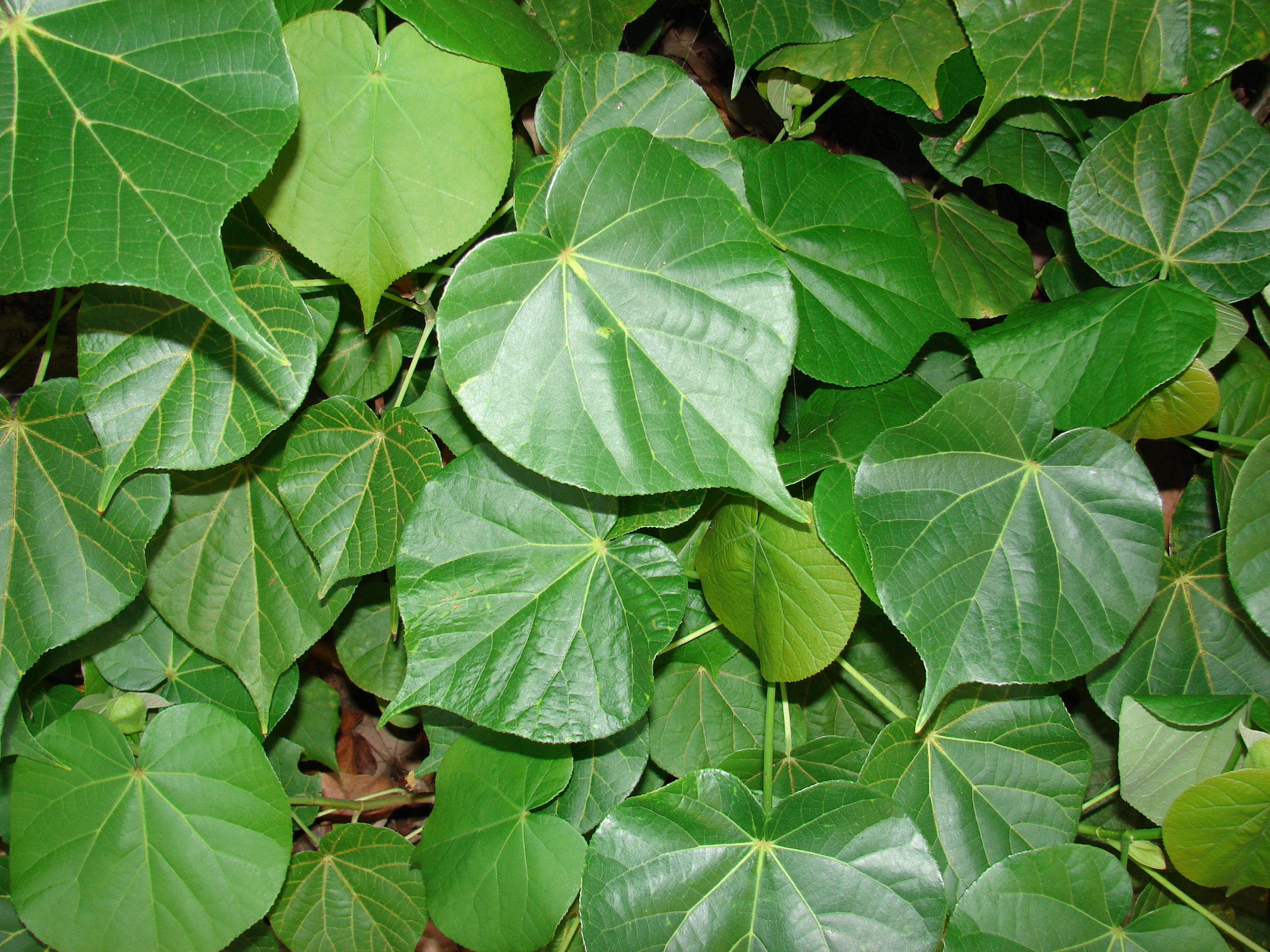 Hibiscus tiliaceus (leaves). Location: Kahoolawe, Honokanaia